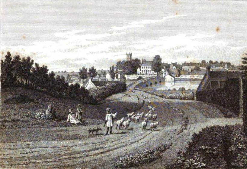 View Of Islip From The South Bank Of River Ray Early 1800's